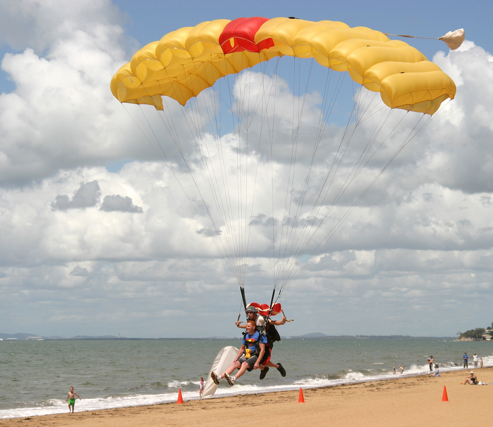 Parachute Landing on Suttons Beach